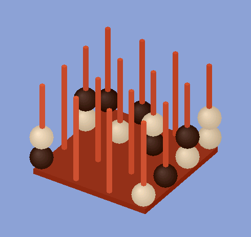 Game situation in a game of Score 4. Screenshot from a Java Applet written by Mussklprozz.